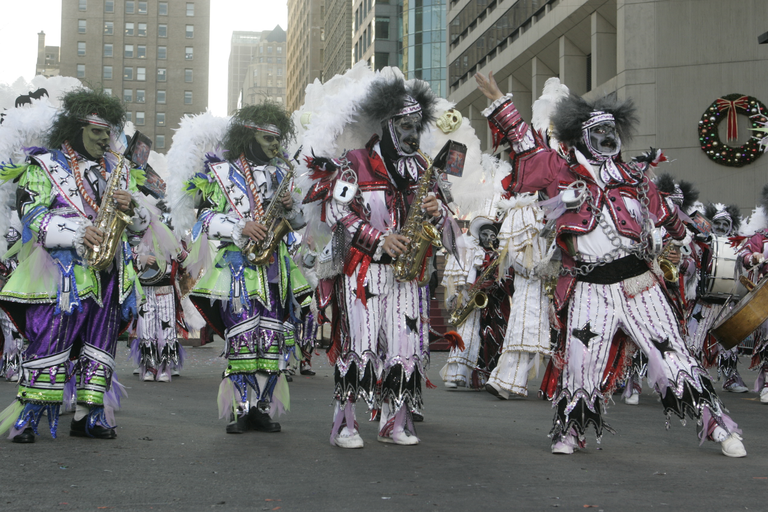 Aqua String Band 2005 "Just Plain Dead". I release this under the GFDL. Mummers Parade, Philadelphia.